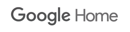 The logo for the smart voice-activated wireless speaker, Google Home.